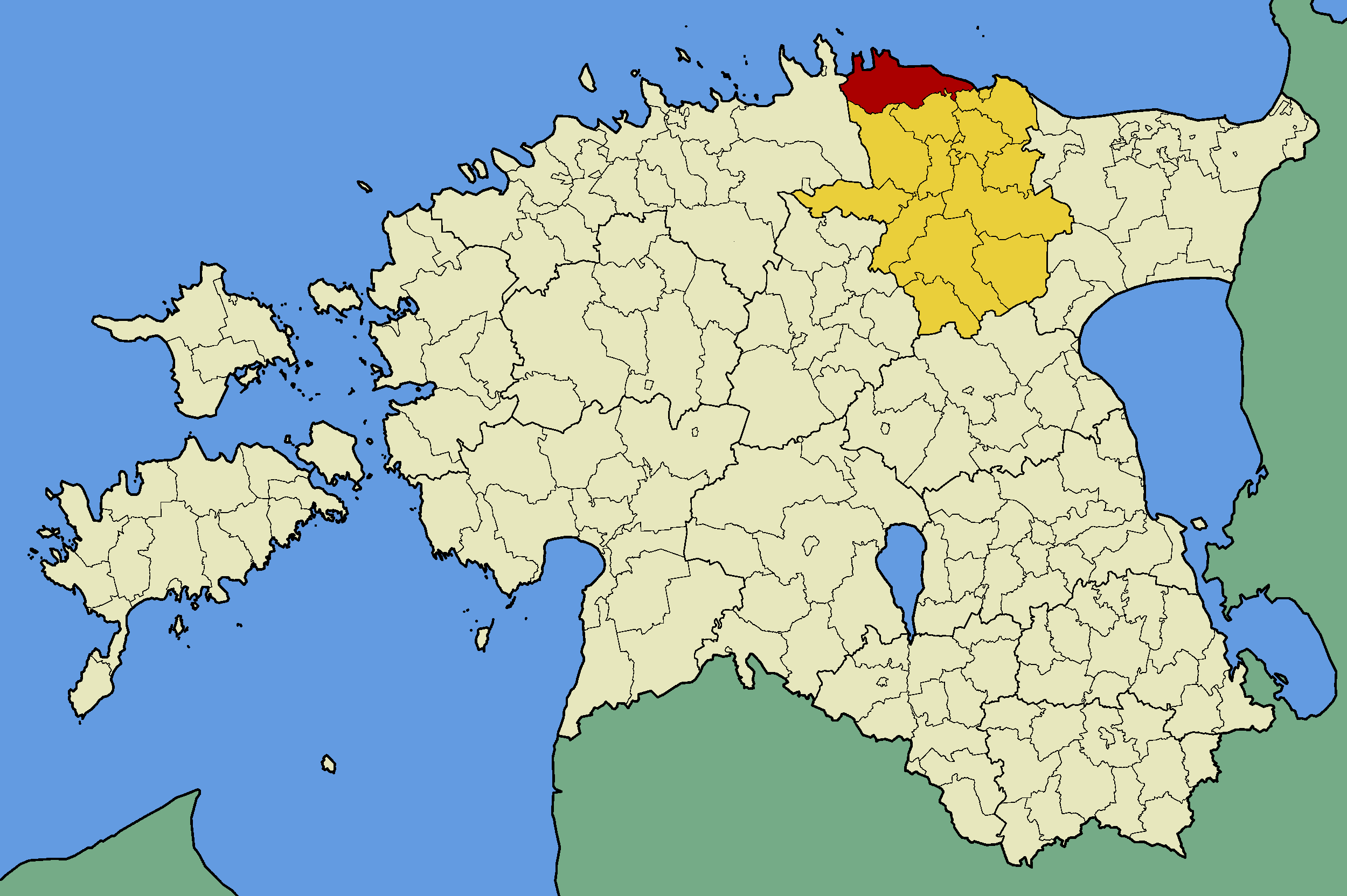 Map of Estonia with borders of municipalities (parishes). Lääne-Viru county and Vihula municipality emphasized.